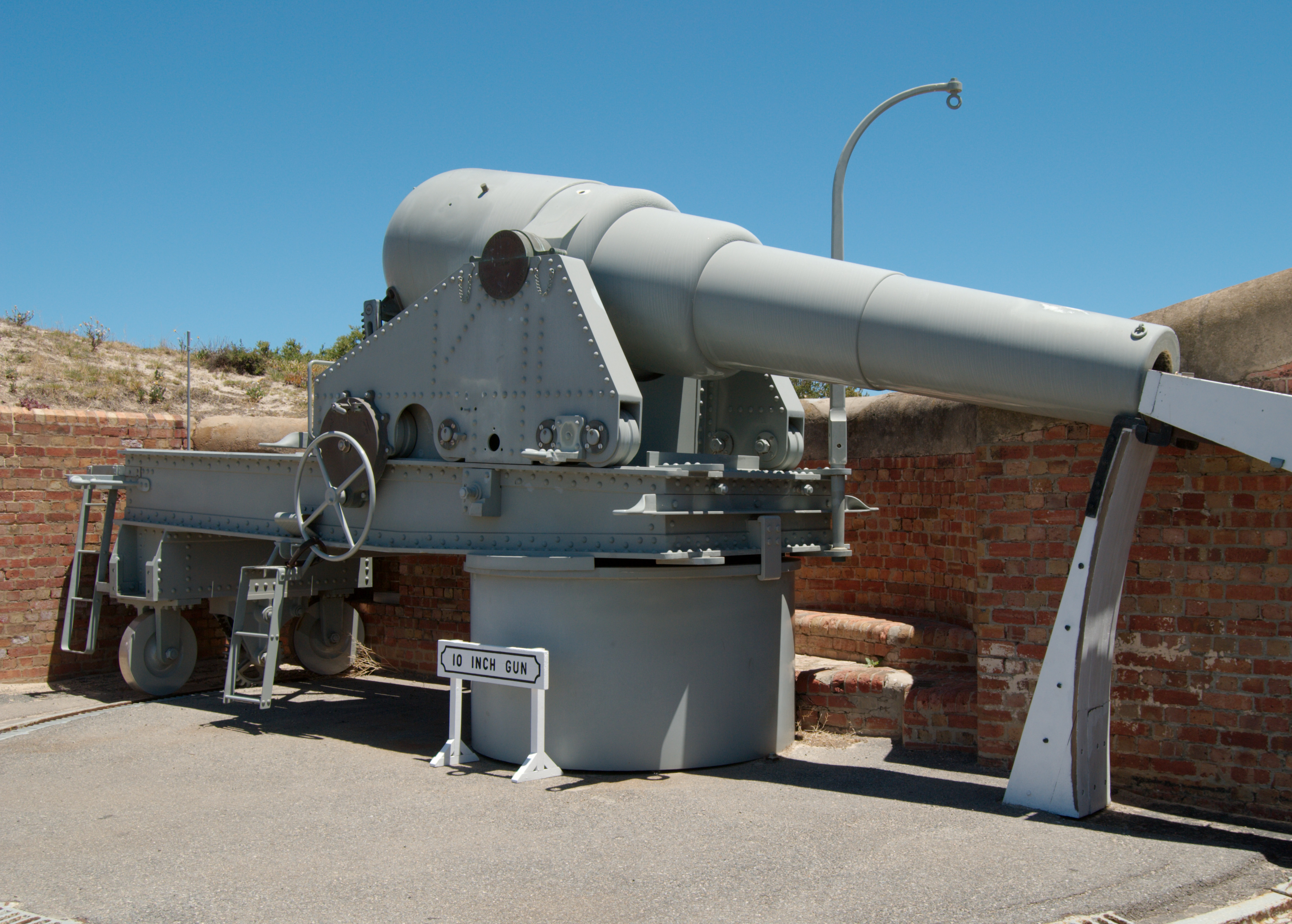 1879 Armstrong 20ton, 10" Rifled Muzzle loading gun on a reconstructed carriage, Fort Glanville, South Australia